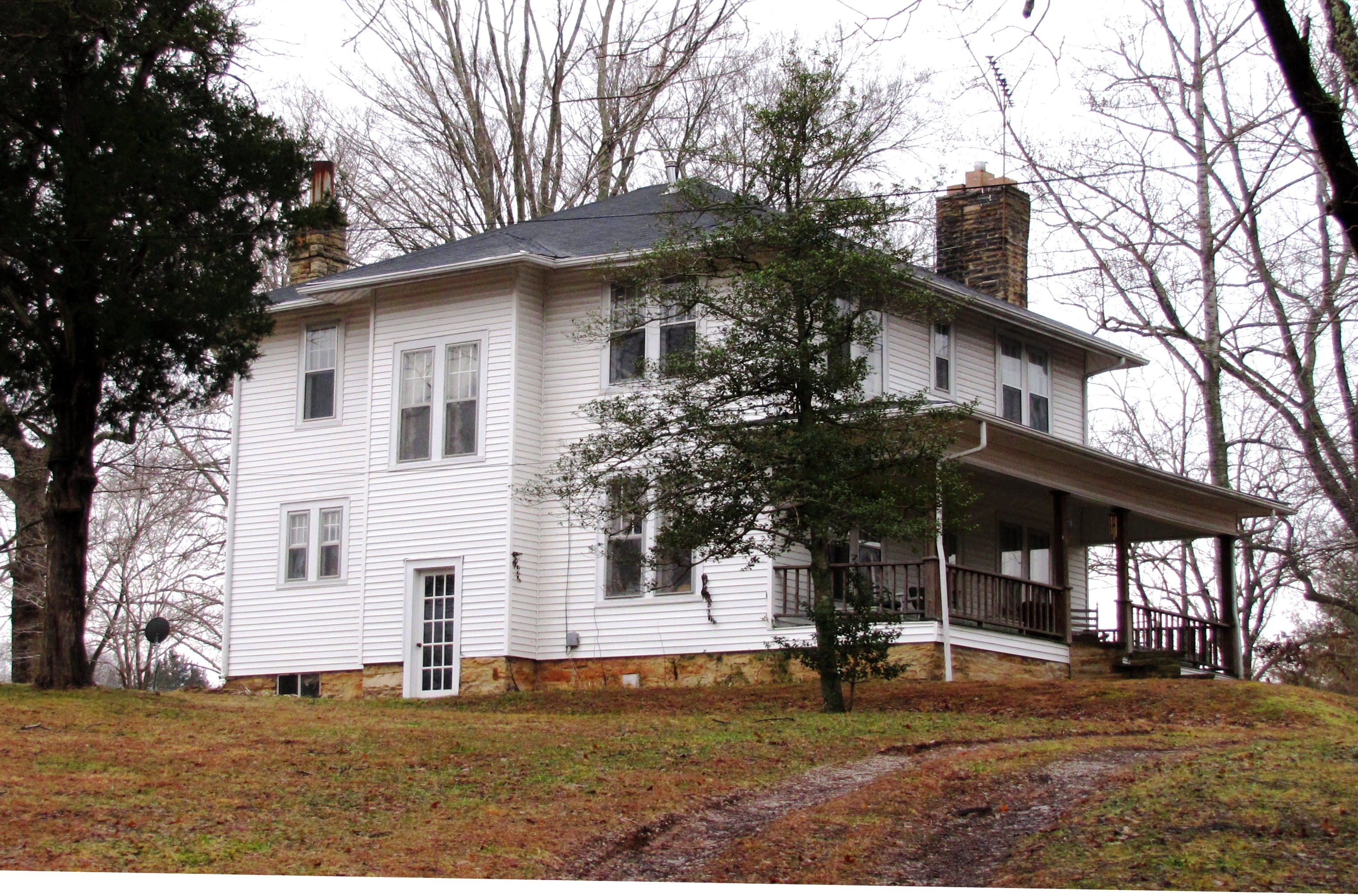 Manse (now a private residence) at the old Alpine Institute campus in Alpine, Tennessee, USA.